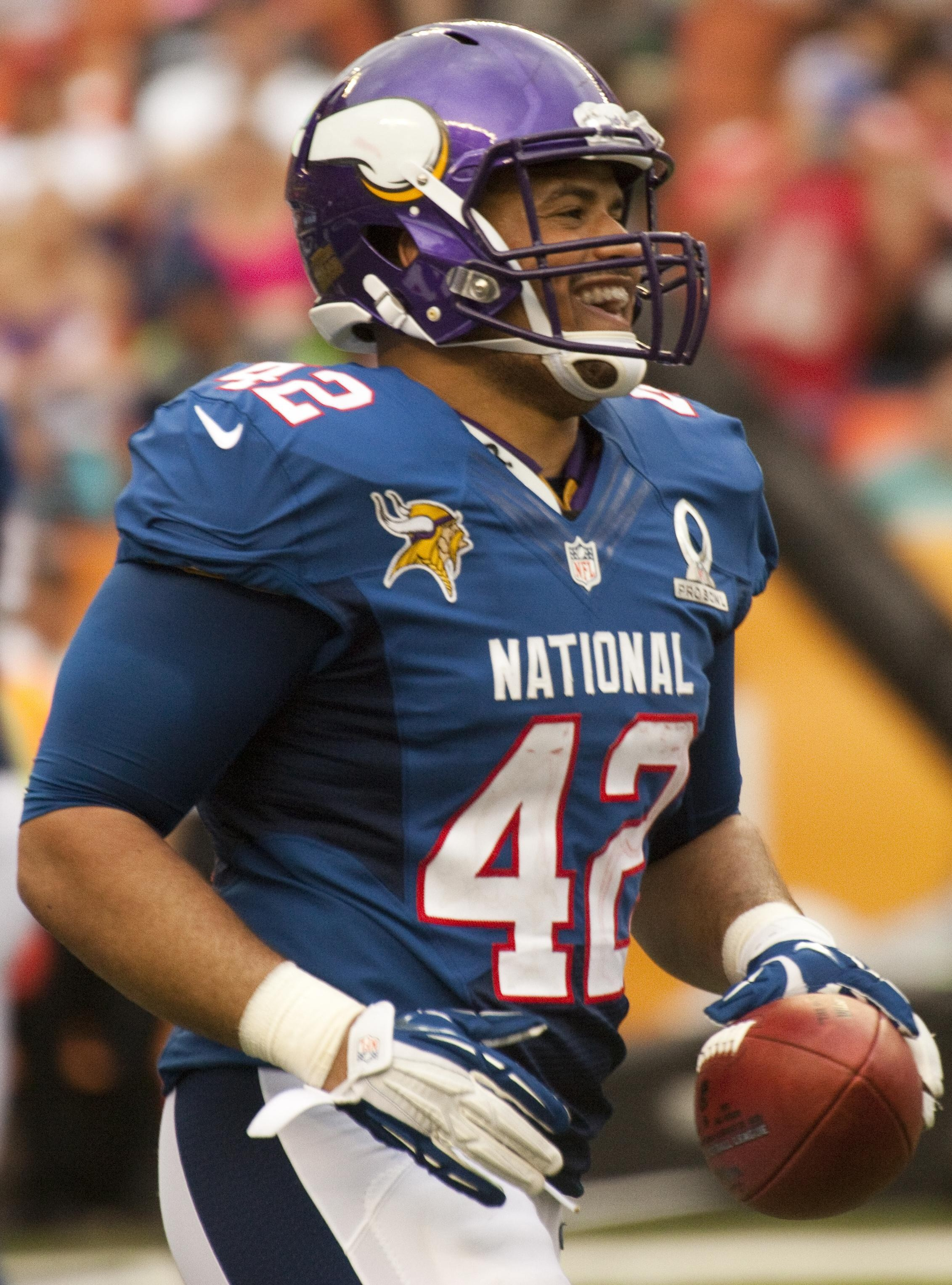 Minnesota Vikings fullback Jerome Felton brings the game ball back to the sidelines after scoring a touchdown during the 2013 NFL Pro Bowl at Aloha Stadium, Jan. 27.